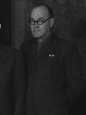 Josip Jeras is a politician